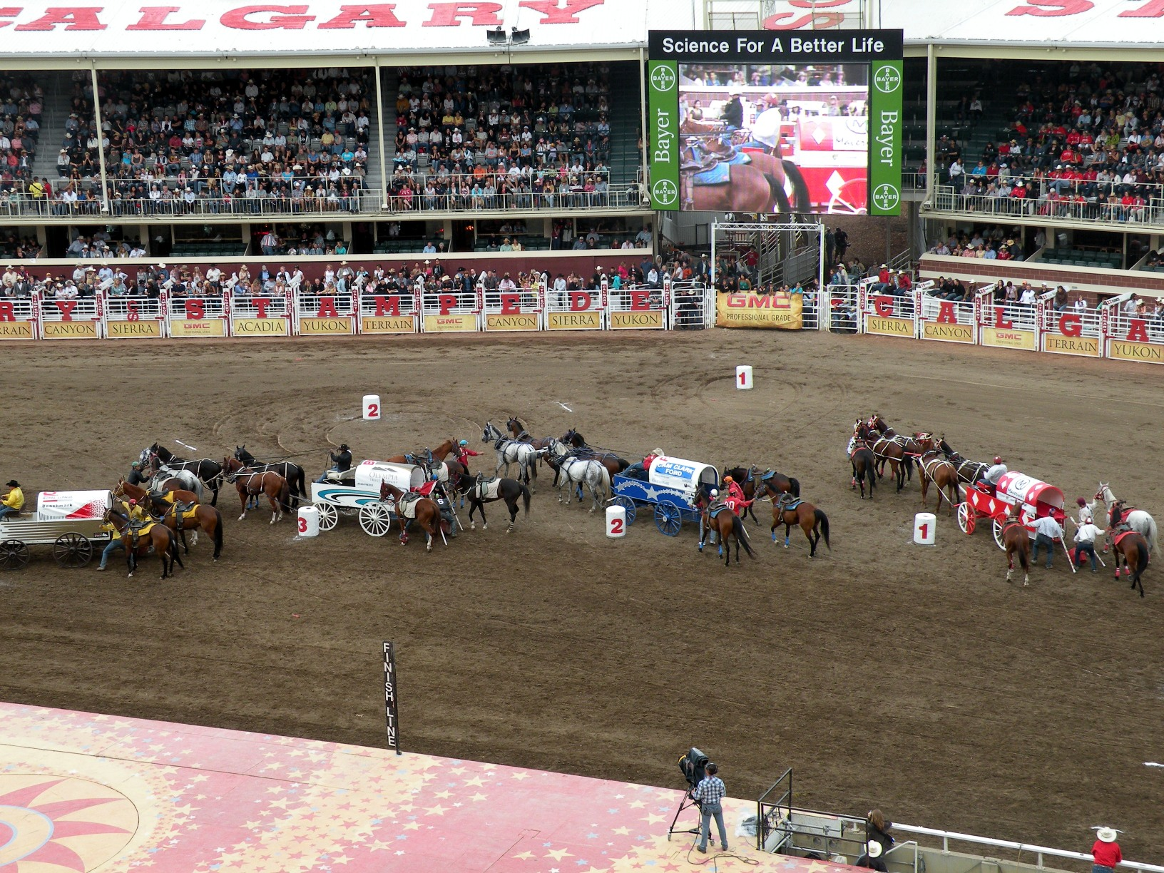 Chuckwagon racing at the 2009 Calgary Stampede.